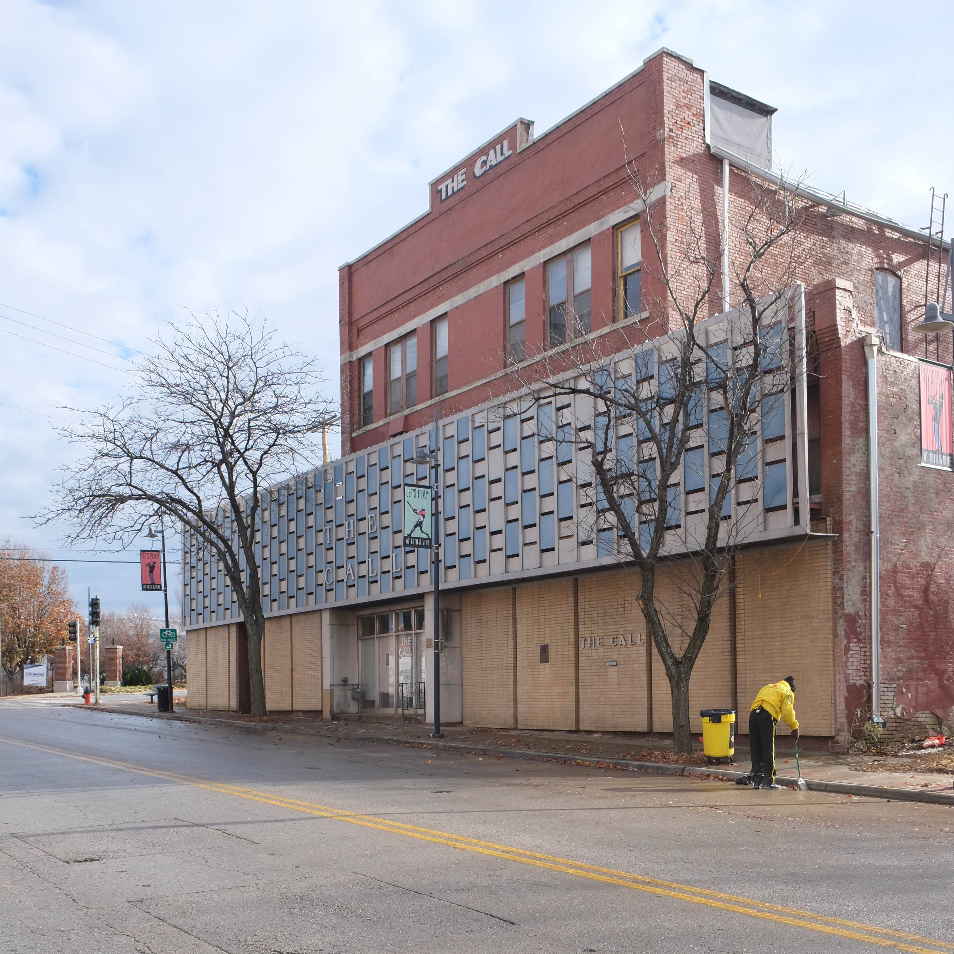 The Call